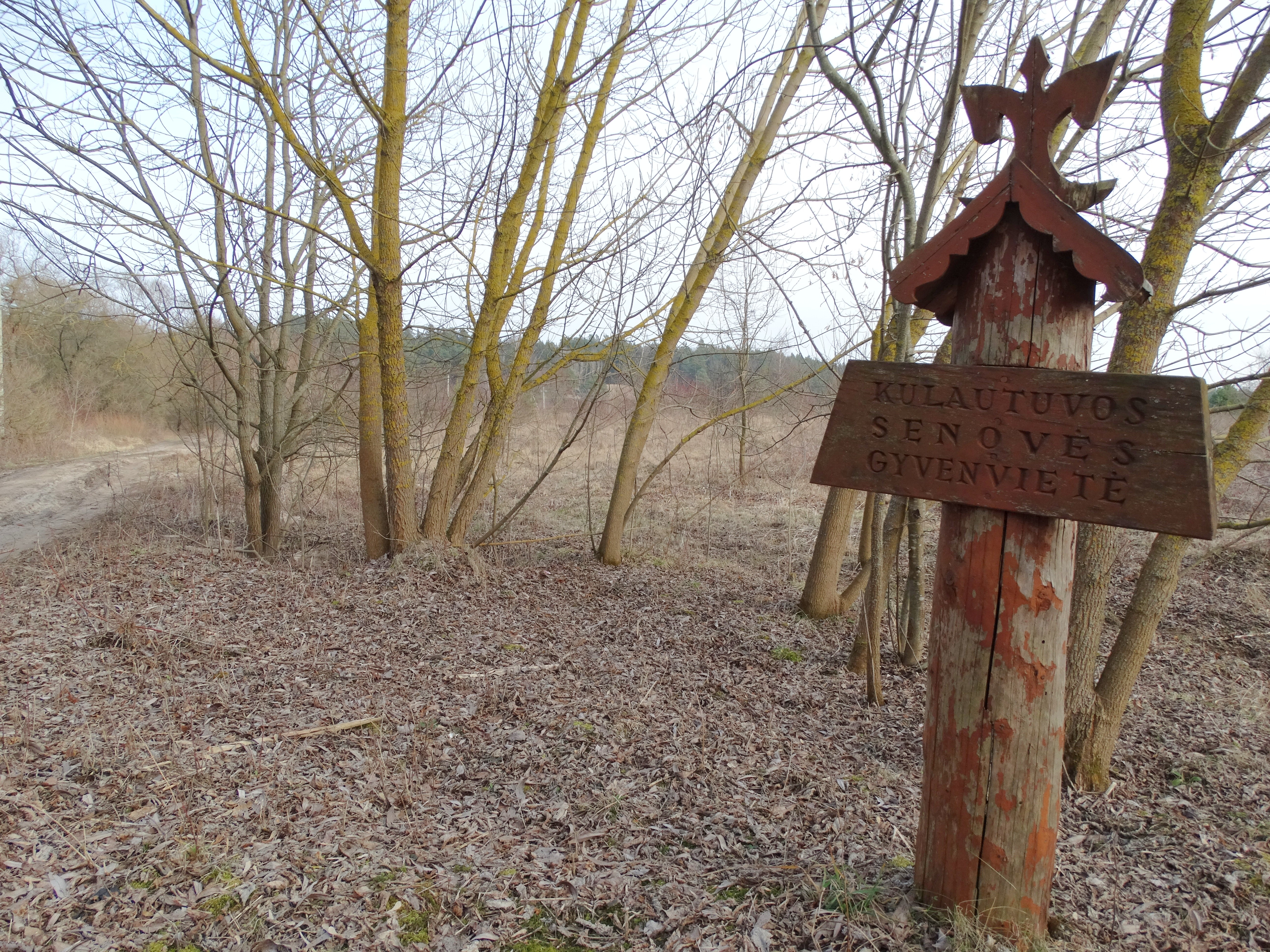 Place of ancient settlement, Kulautuva, Kaunas district. Lithuania